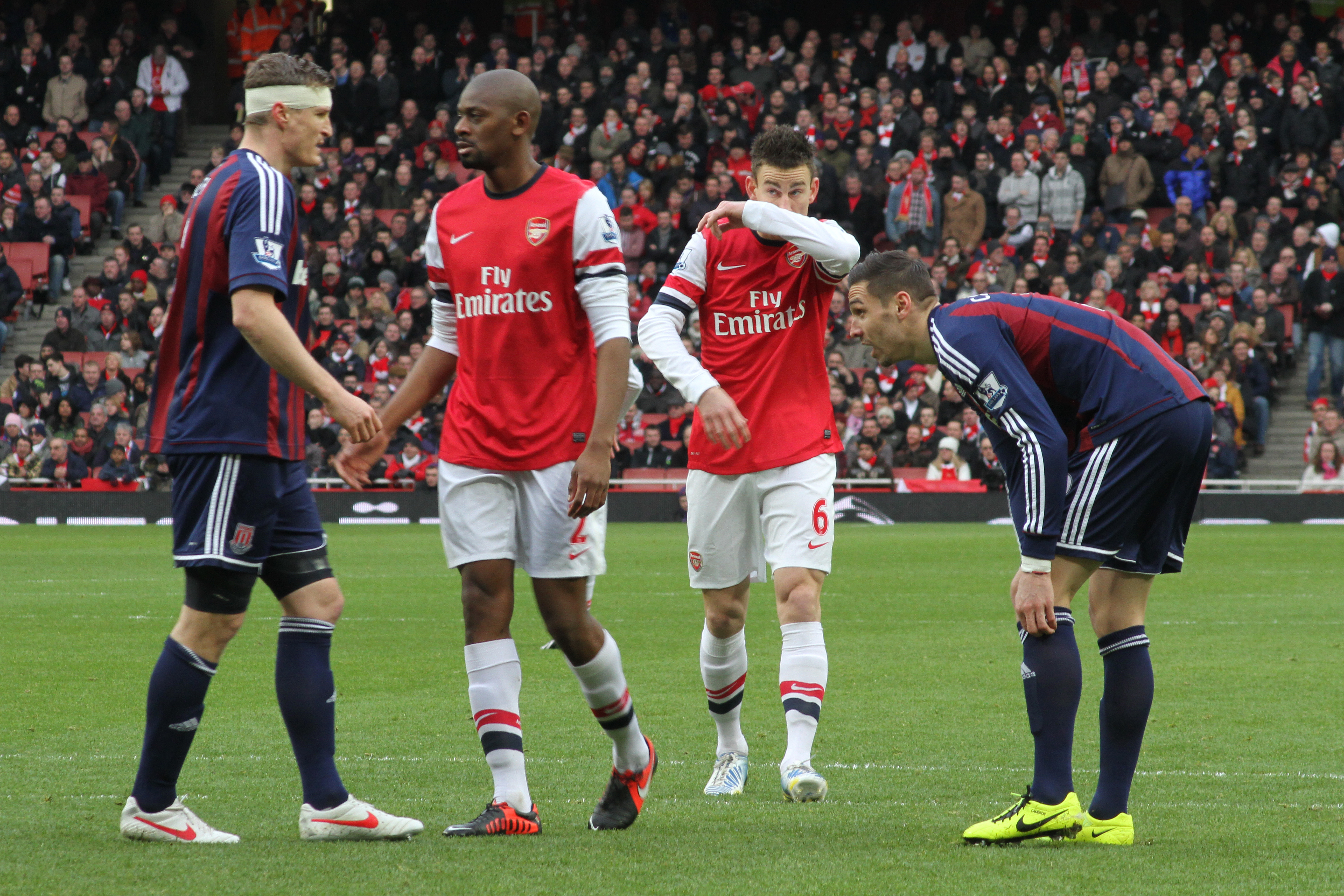 From left to right, Robert Huth, Abou Diaby, Laurent Koscielny & Geoff Cameron